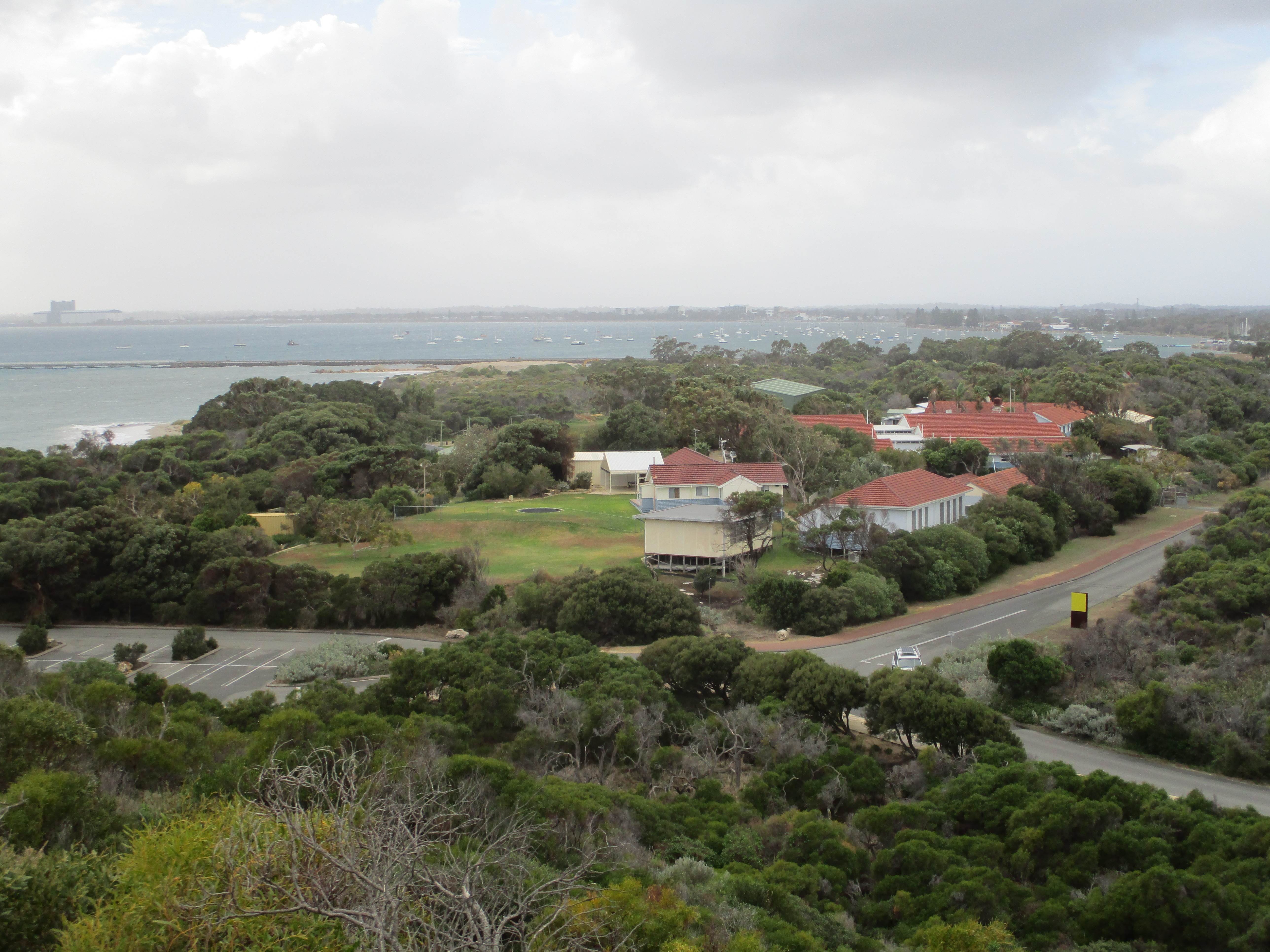 Rockingham, Western Australia, seen from Point Peron, with the schoolcamp in the foreground. The Kwinana grain terminal can also be seen as well as the causeway to Garden Island.